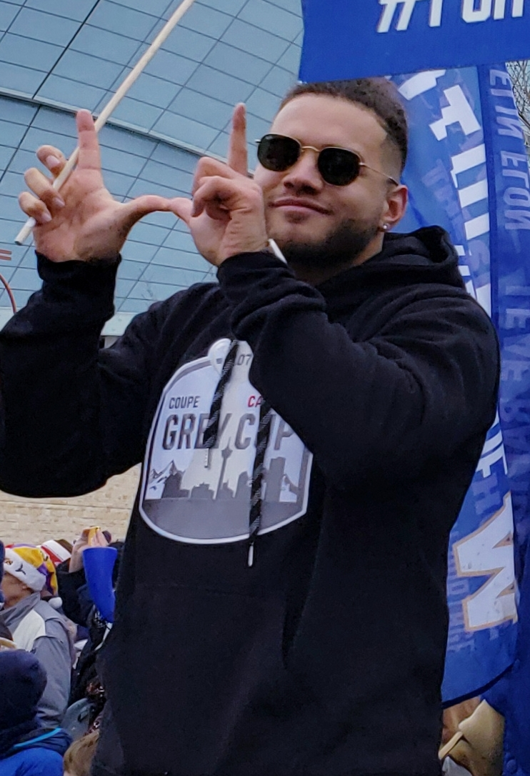 Brady Oliveira at the Winnipeg Blue Bombers' 2019 Grey Cup parade.